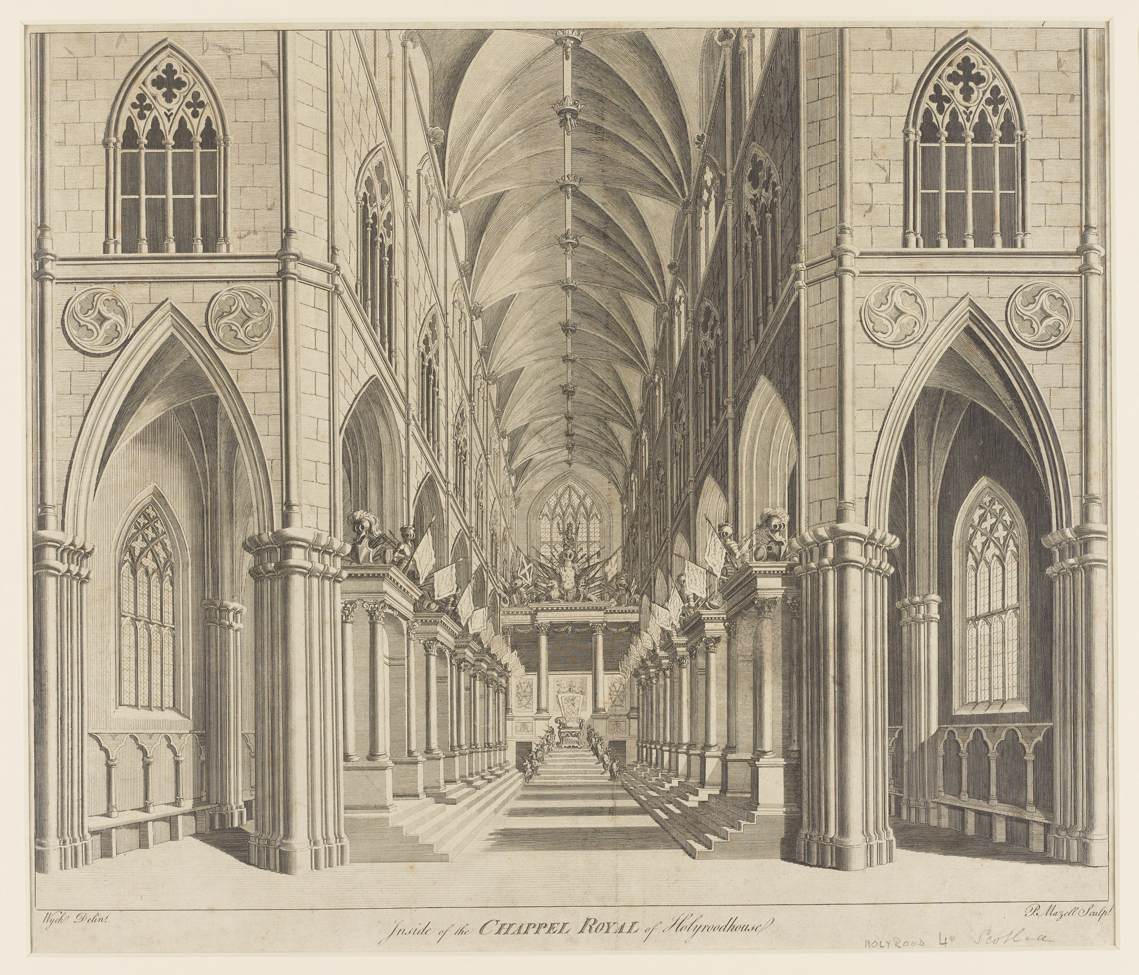 The interior of Holyrood Abbey after its designation as the chapel royal and chapel of the Order of the Thistle in 1687 and before the interior's destruction in 1688.